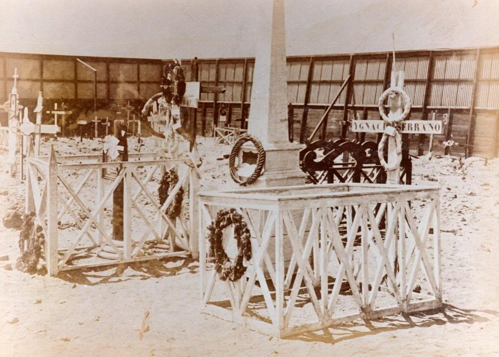 Tumbas de Arturo Prat e Ignacio Serrano en Iquique.